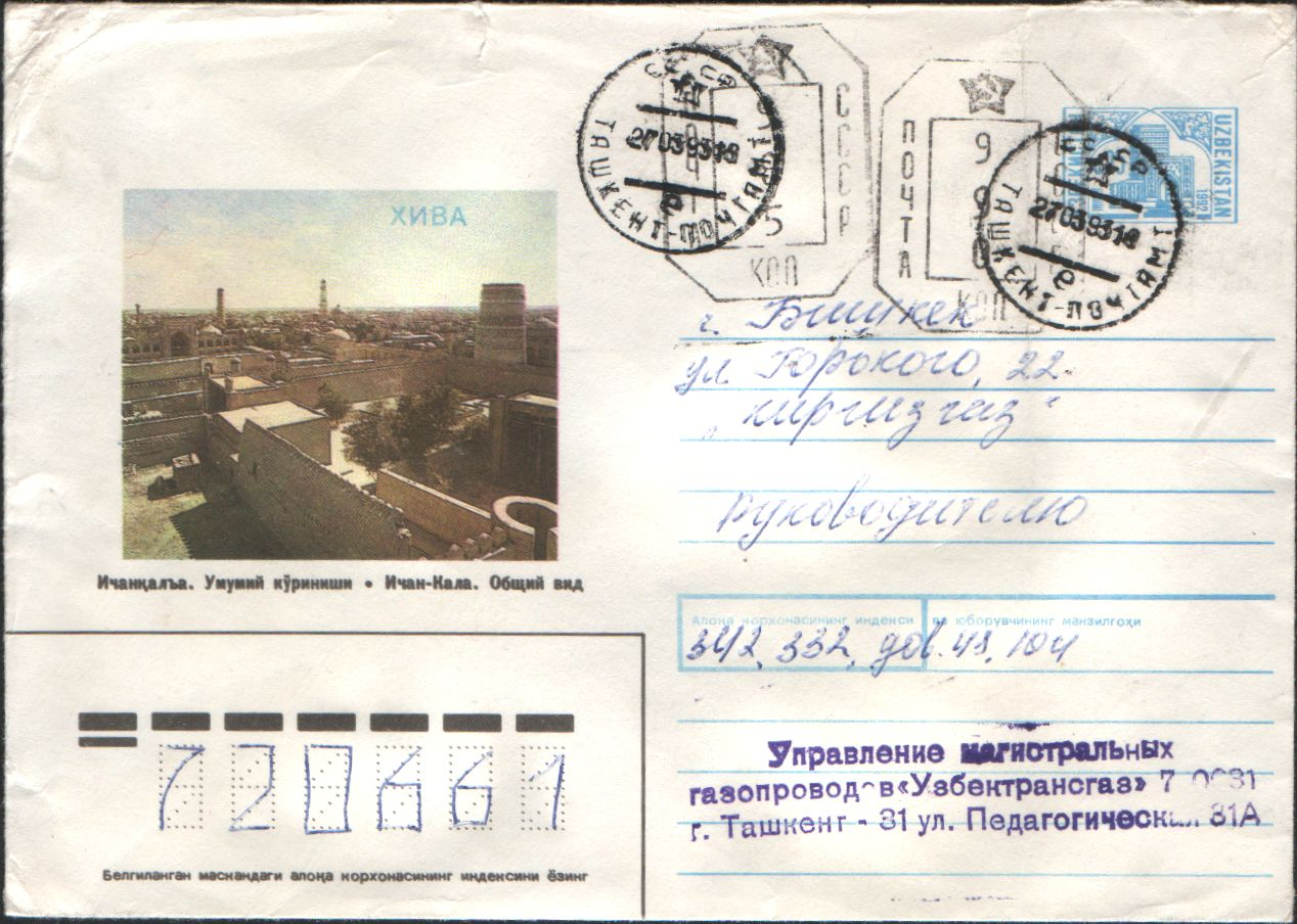 Provisionally re-evaluation of Tashkent in 1993 on the Art pre-stamped envelopes of Uzbekistan.